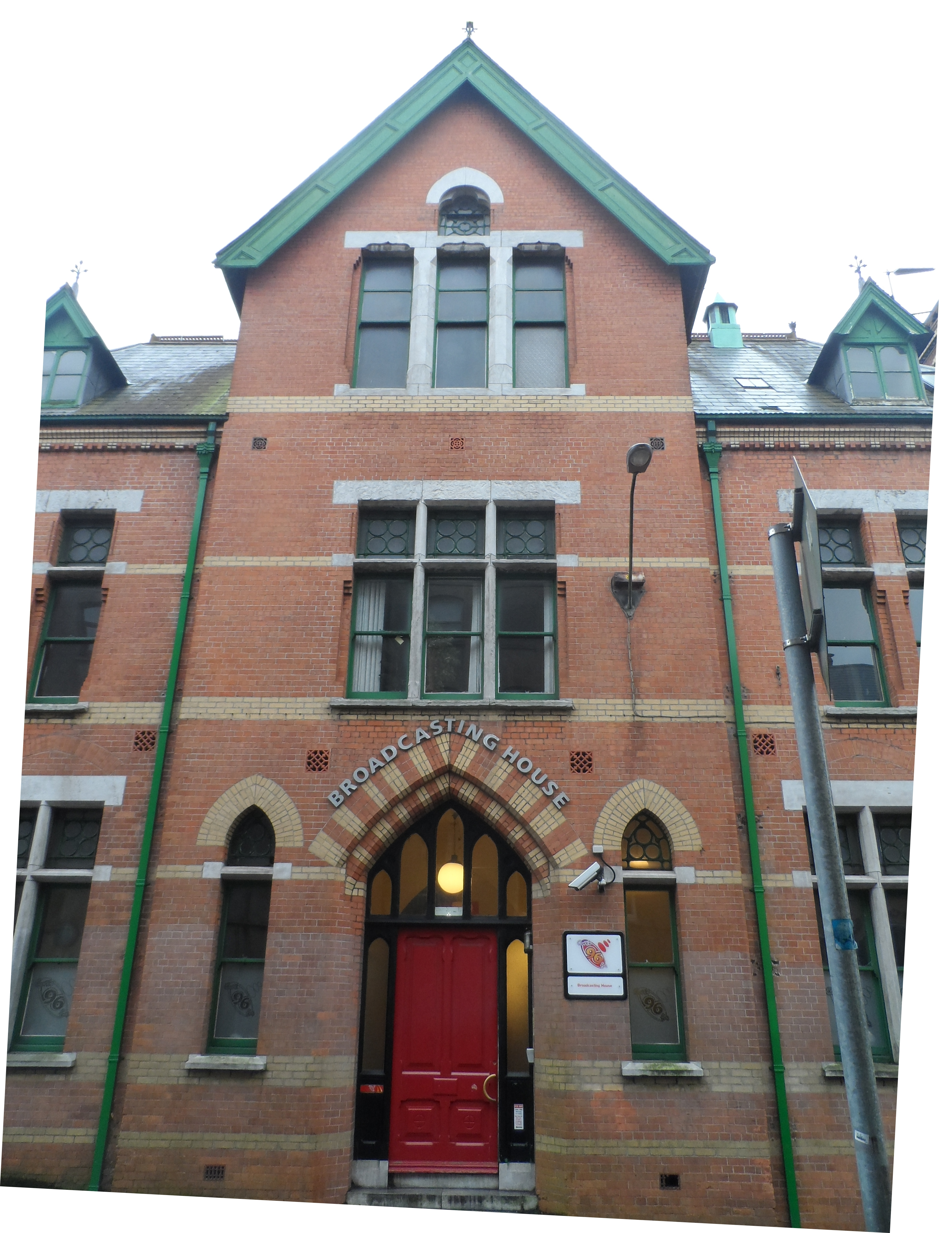 Cork (city) offices